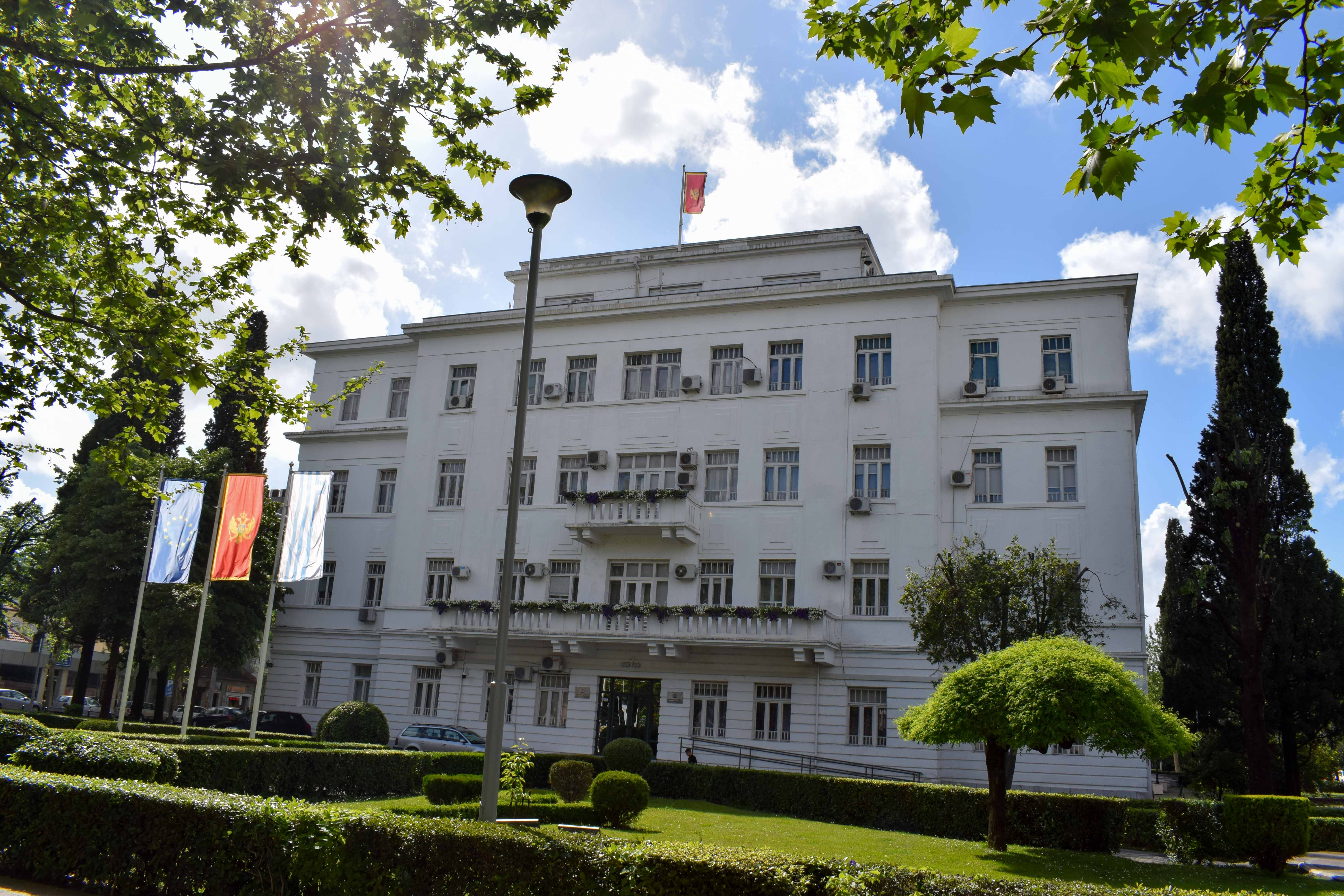 Podgorica City Hall